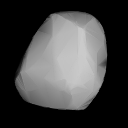 3D convex shape model of 450 Brigitta, computed using light curve inversion techniques. J. Hanuš, J. Ďurech, M. Brož, B. D. Warner (June 2011). "A study of asteroid pole-latitude distribution based on an extended set of shape models derived by the lightcurve inversion method". Astronomy and Astrophysics 530: A134. ISSN 0004-6361. arXiv